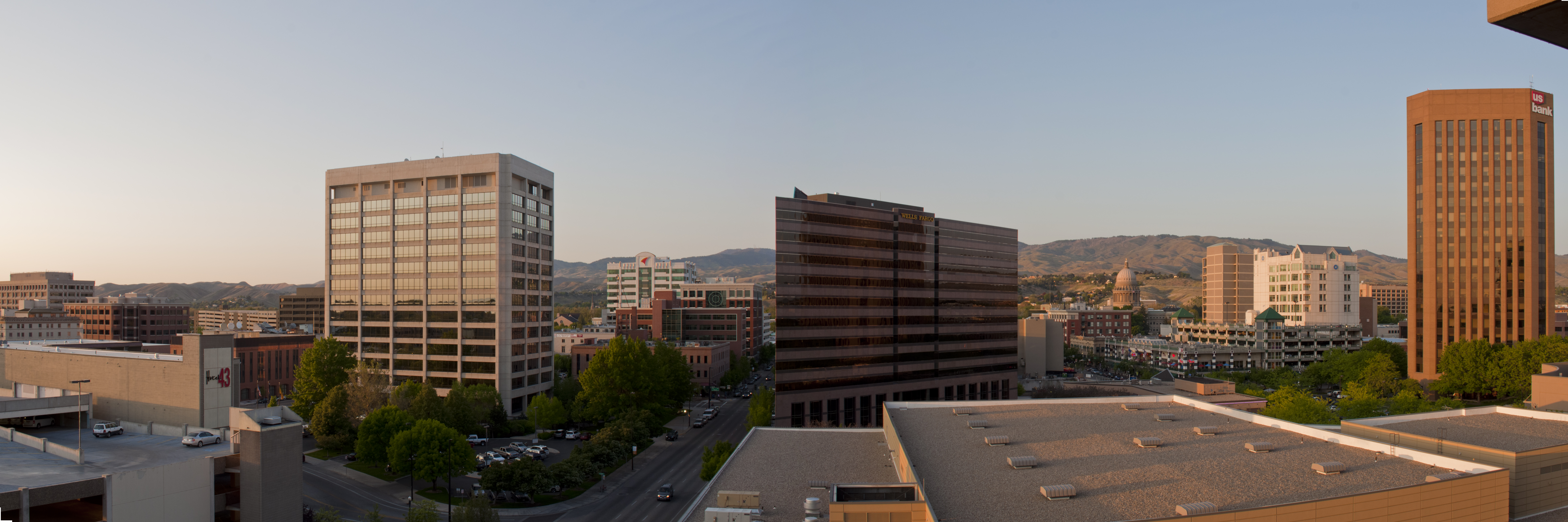 Boise. Taken from the parking garage at the Aspen Condos and Lofts.